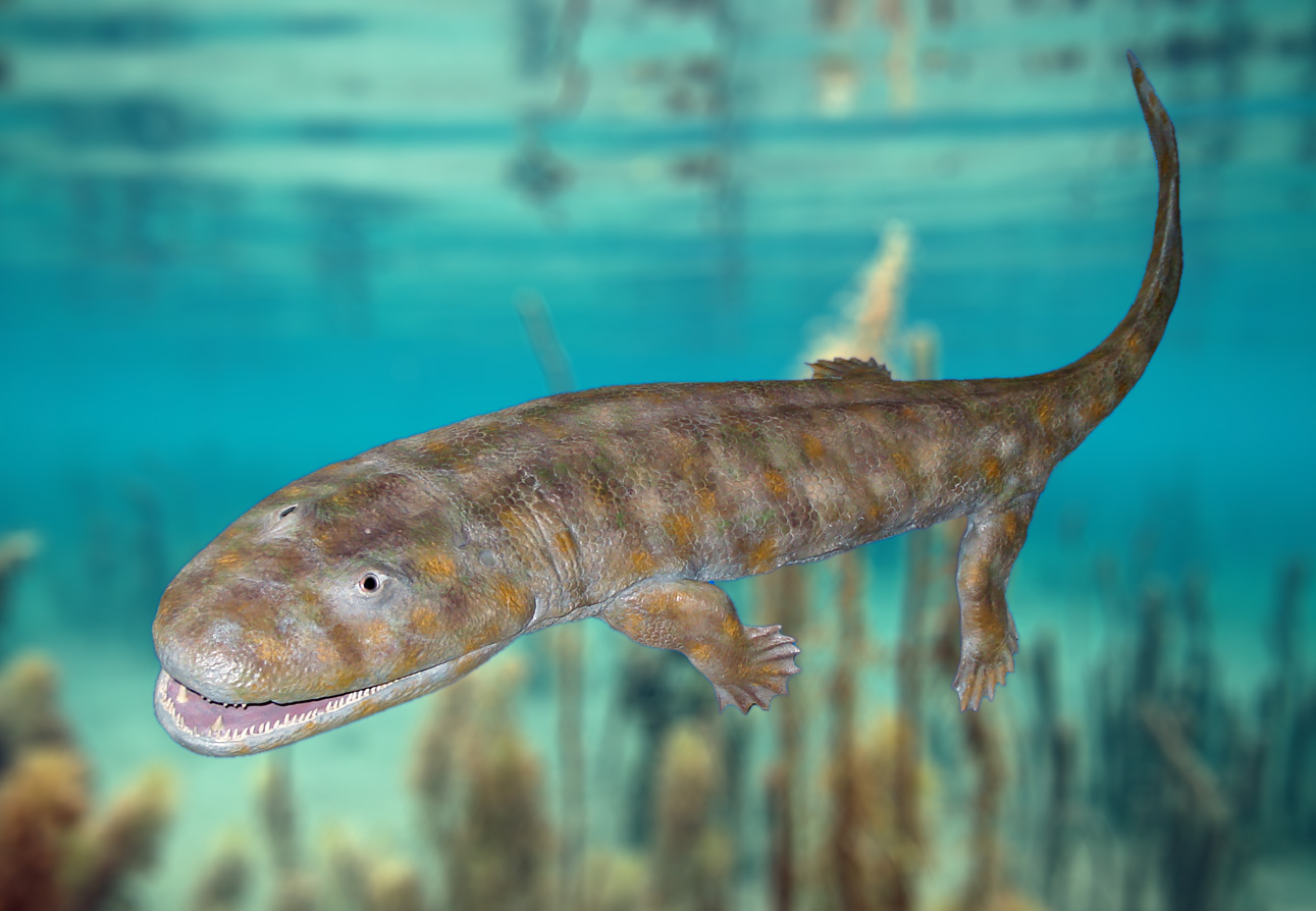 Model reconstruction of Acanthostega at State Museum of Natural History in Stuttgart (Germany)